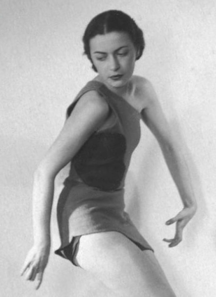 Studio portrait of Polish actress and cabaret dancer Stefania Grodzieńska (1914-2010), Second Polish Republic.